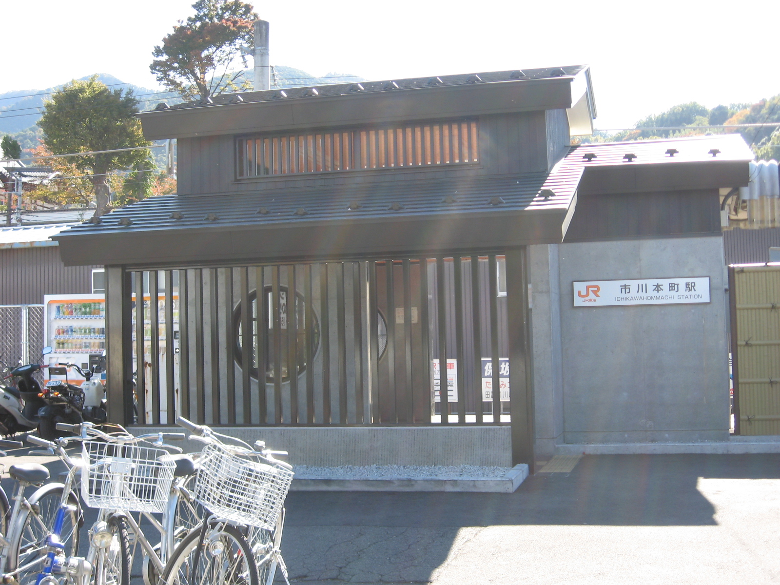 Ichikawa-Honmachi Station